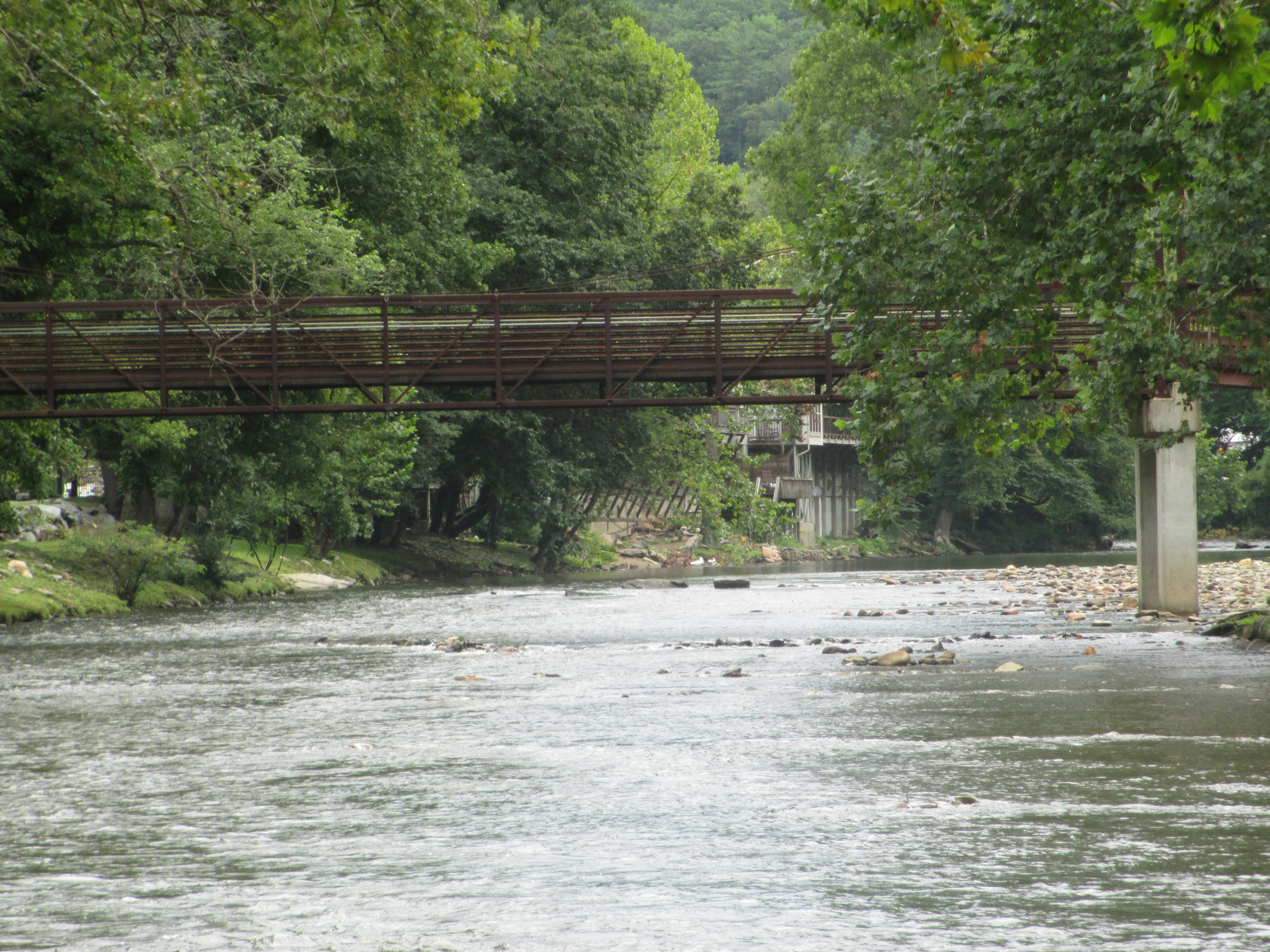 I took photo with Canon camera of bridge over Oconaluftee River in Cherokee, NC, with Canon camera.